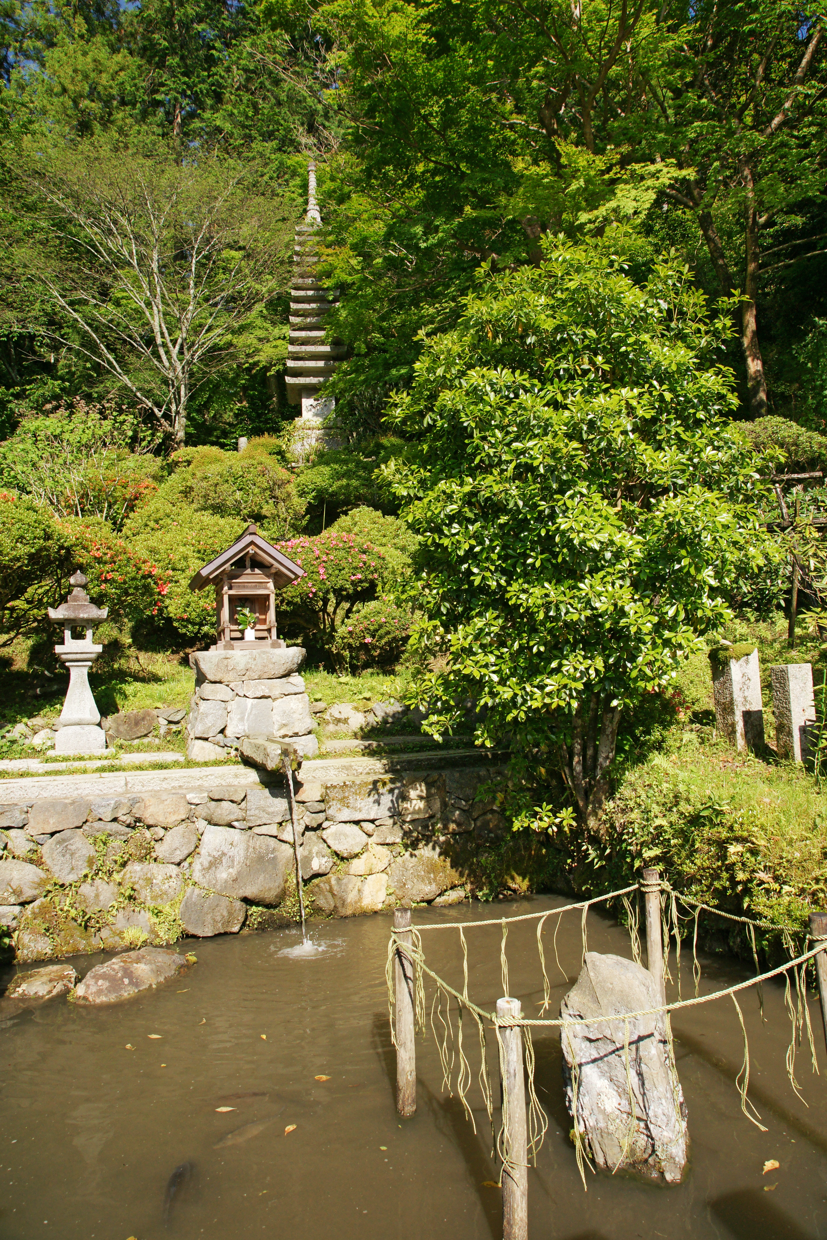 Okadera in Asuka, Nara Prefecture, Japan.